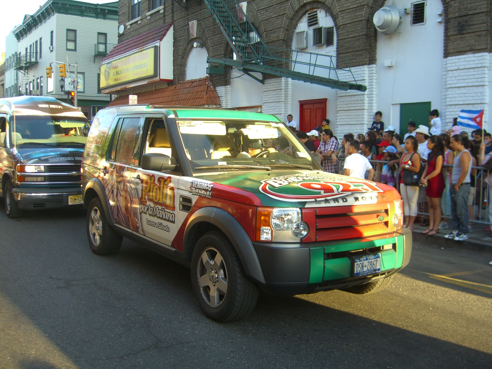 A WQBU-FM La Buena car in the 11th annual North Hudson Cuban Day Parade on Bergenline Avenue at 43rd Street in Union City, New Jersey, June 6, 2010. Photo by Luigi Novi. This photo may be used and modified, for any purpose, only if the photographer is visibly credited in each instance in which it is used. (See licensing information below.) For more information on my photos, you can contact me here.